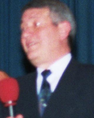 Reinhold Hoffmann, organizer of chess tournaments, Senior Chess World Championship 1995 at Bad Liebenzell, Photographer Gerhard Hund.